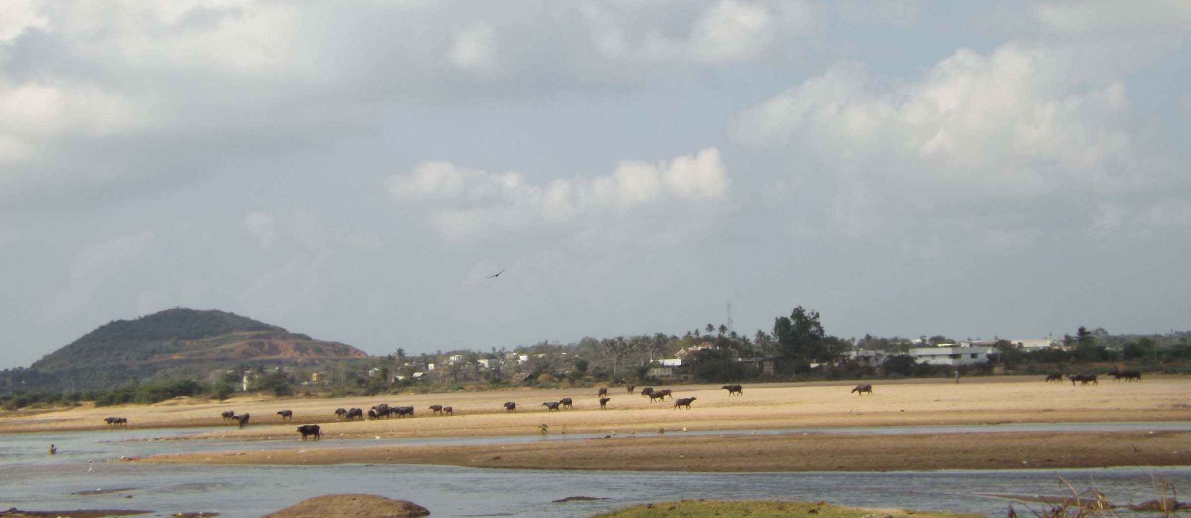 River Nagavali, Srikakulam